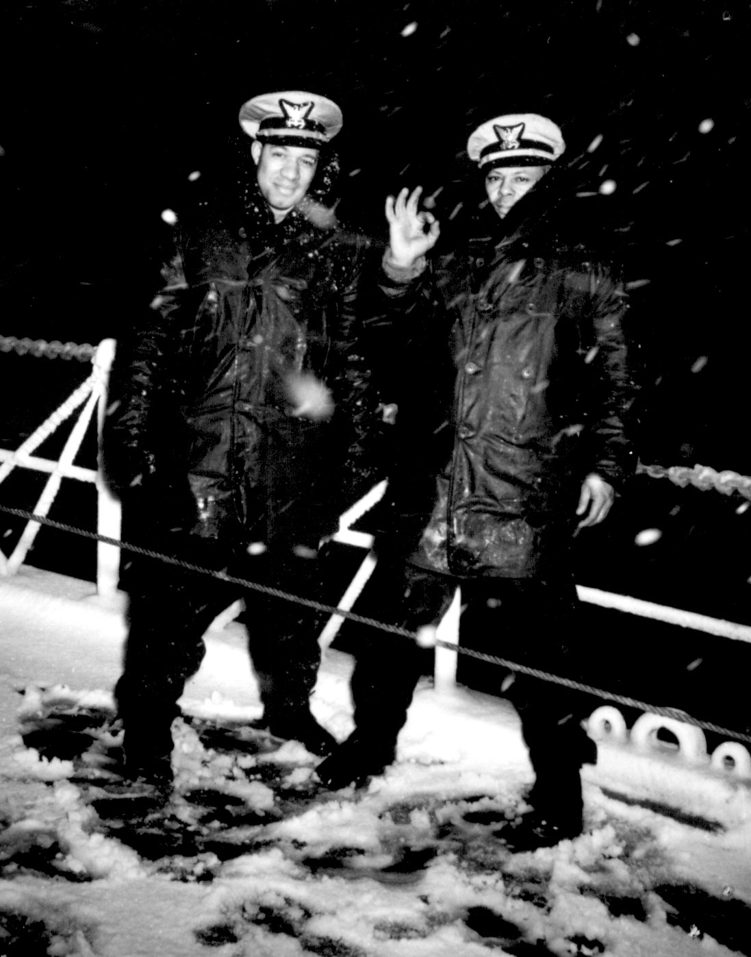 from NARA :"Two Coast Guard officers brave the wintry blasts of snow aboard a Coast Guard cutter on the North Atlantic patrol. The officers who give their cheery greetings despite the icy weather are Lt.(jg.) Clarence Samuels (right) and Ens. J.J. Jenkins (left)..." N.d. 26-G-3686.